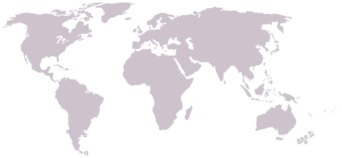 Distribution of Tasmacetus shepherdi